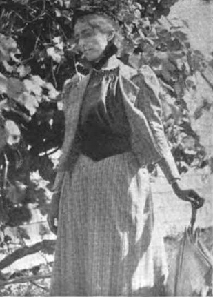 Alice Kerr-Nelson Hirschberg